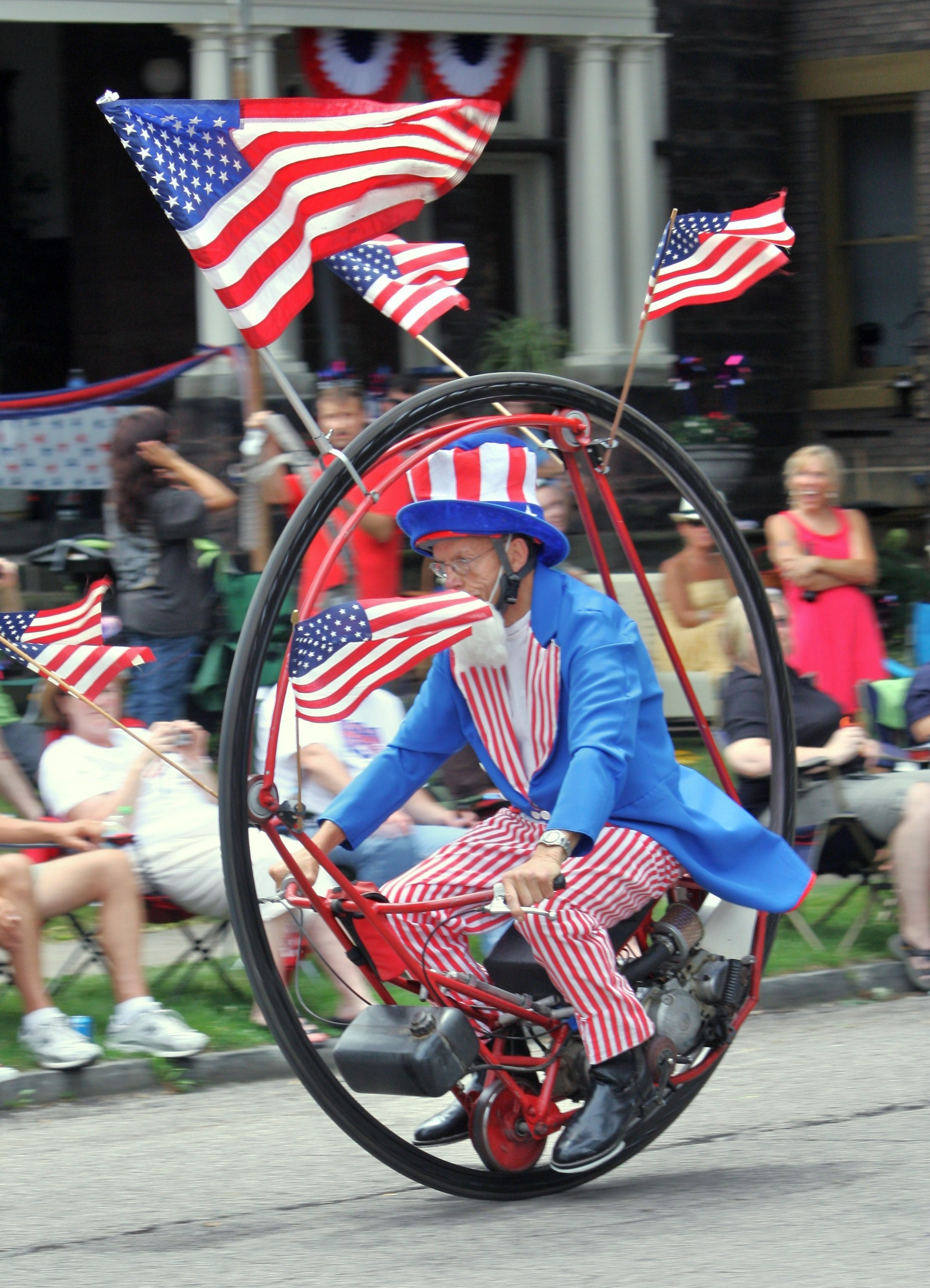 Man riding a monowheel in the 2011 Doo Dah Parade, Columbus, Ohio. Parade route viewed on W. 2nd Ave. in The Short North.